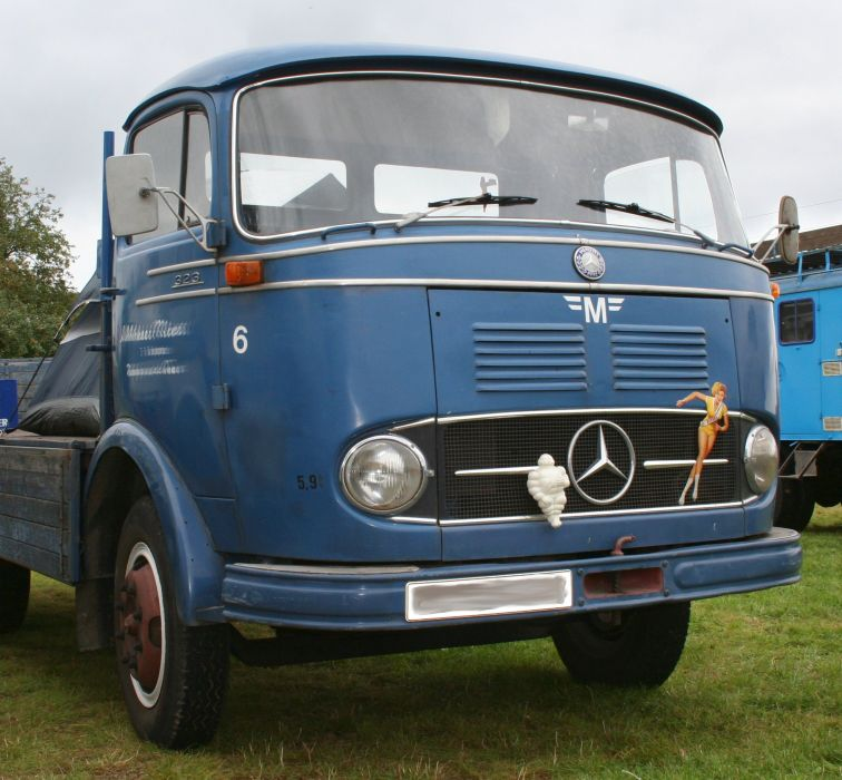 Mercedes-Benz LP 323